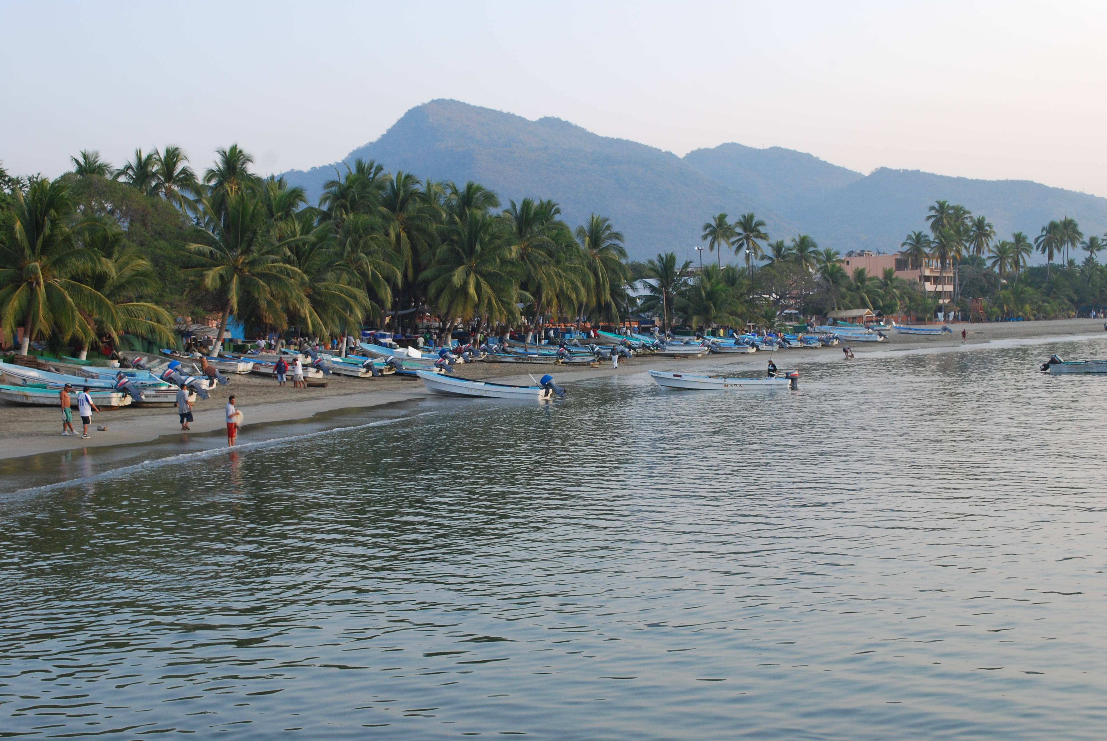 Fishing boats on the main beach of Zihuatanejo, Mexico